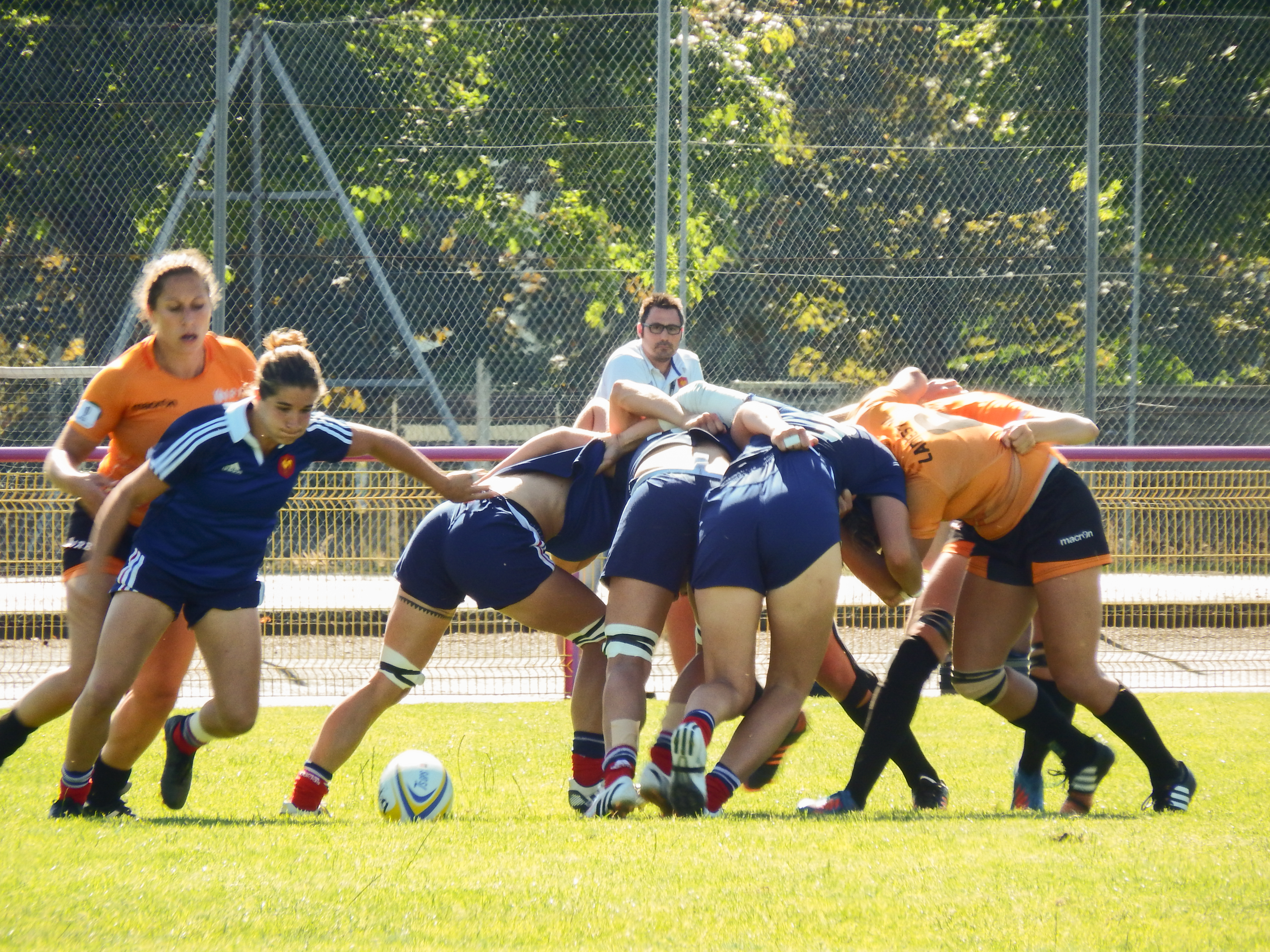 Malemort Sevens 2015 — 20 June 2015, stade Raymond-Faucher. Match between: France — Netherlands